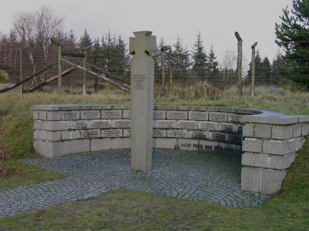 Frøslev Camp build by the Germans (Nazi) in Denmark during World War II (1940 - 1945). From this camp prisoners were send to the KZ camps in the rest of Europe. Memorial.